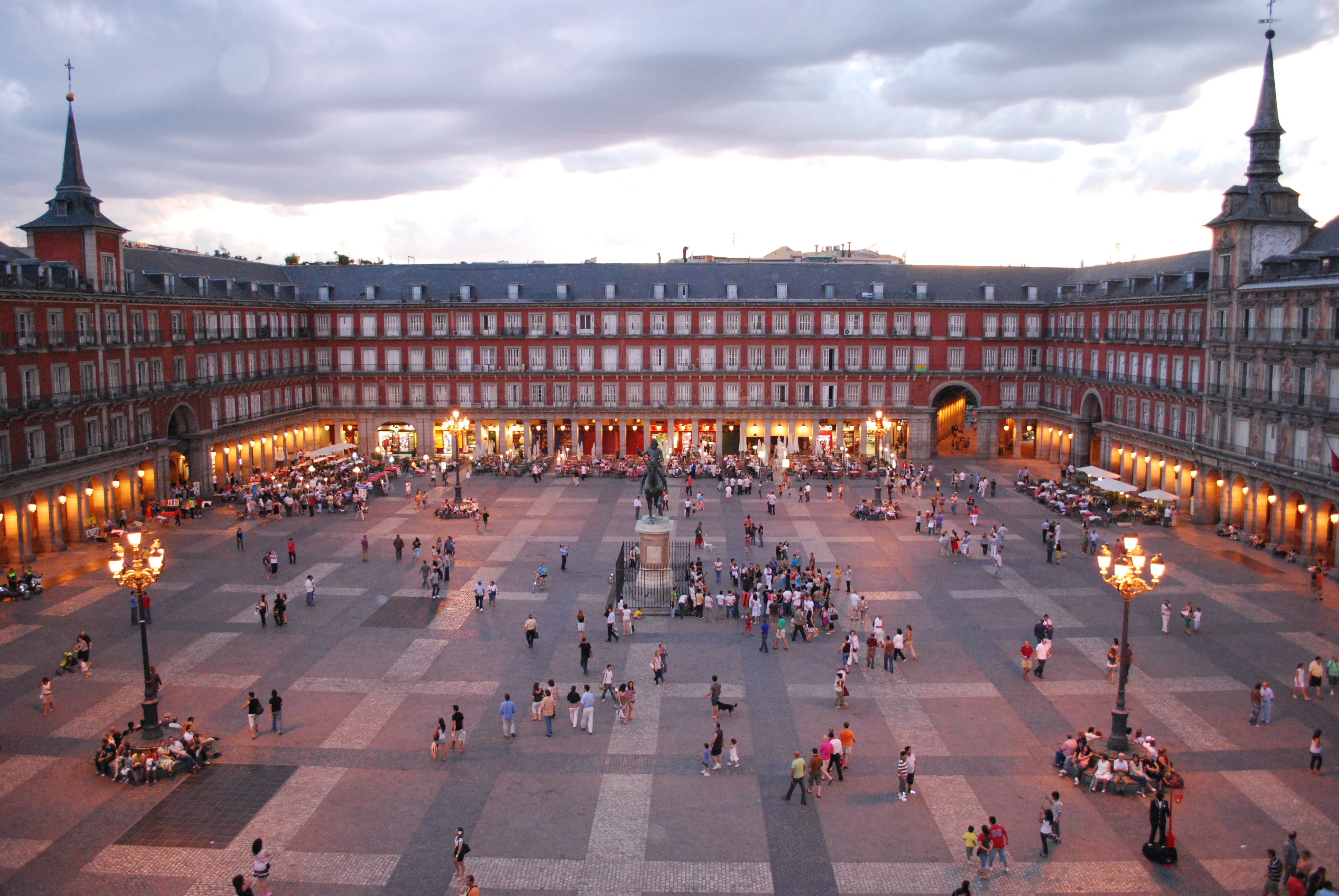 Plaza Mayor (square) in Madrid (Spain) at dusk.